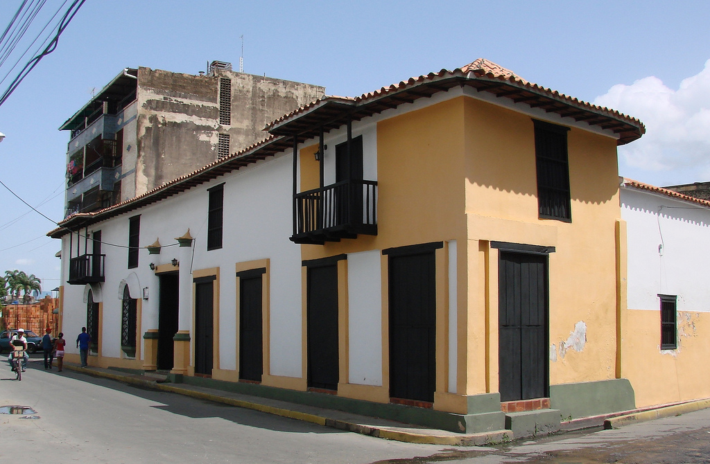 Casa Guipuzcoana, in Cagua, Venezuela; office of the Compañía Guipuzcoana de Caracas.